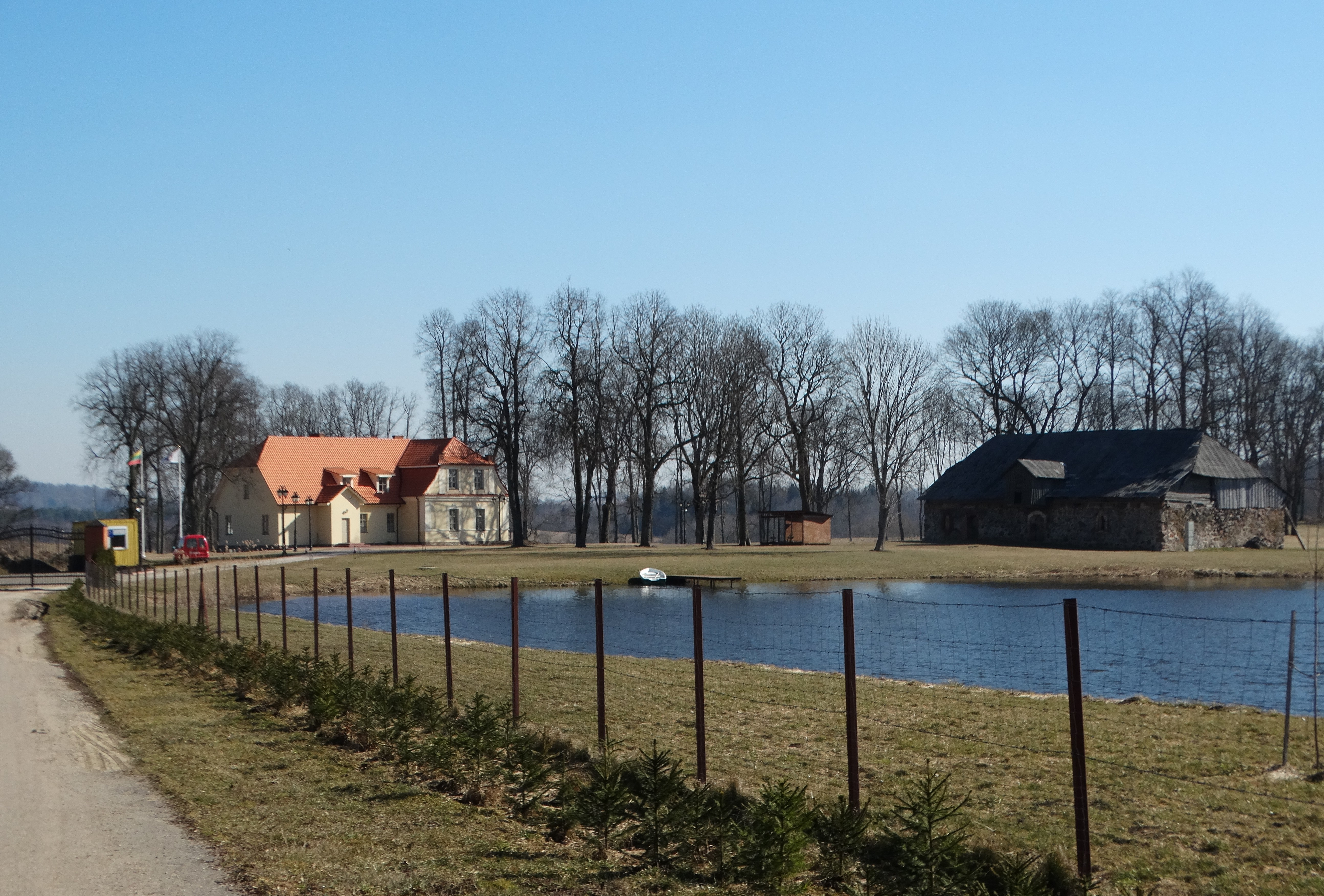 Manor, Pakėvis, Kelmė district, Lithuania